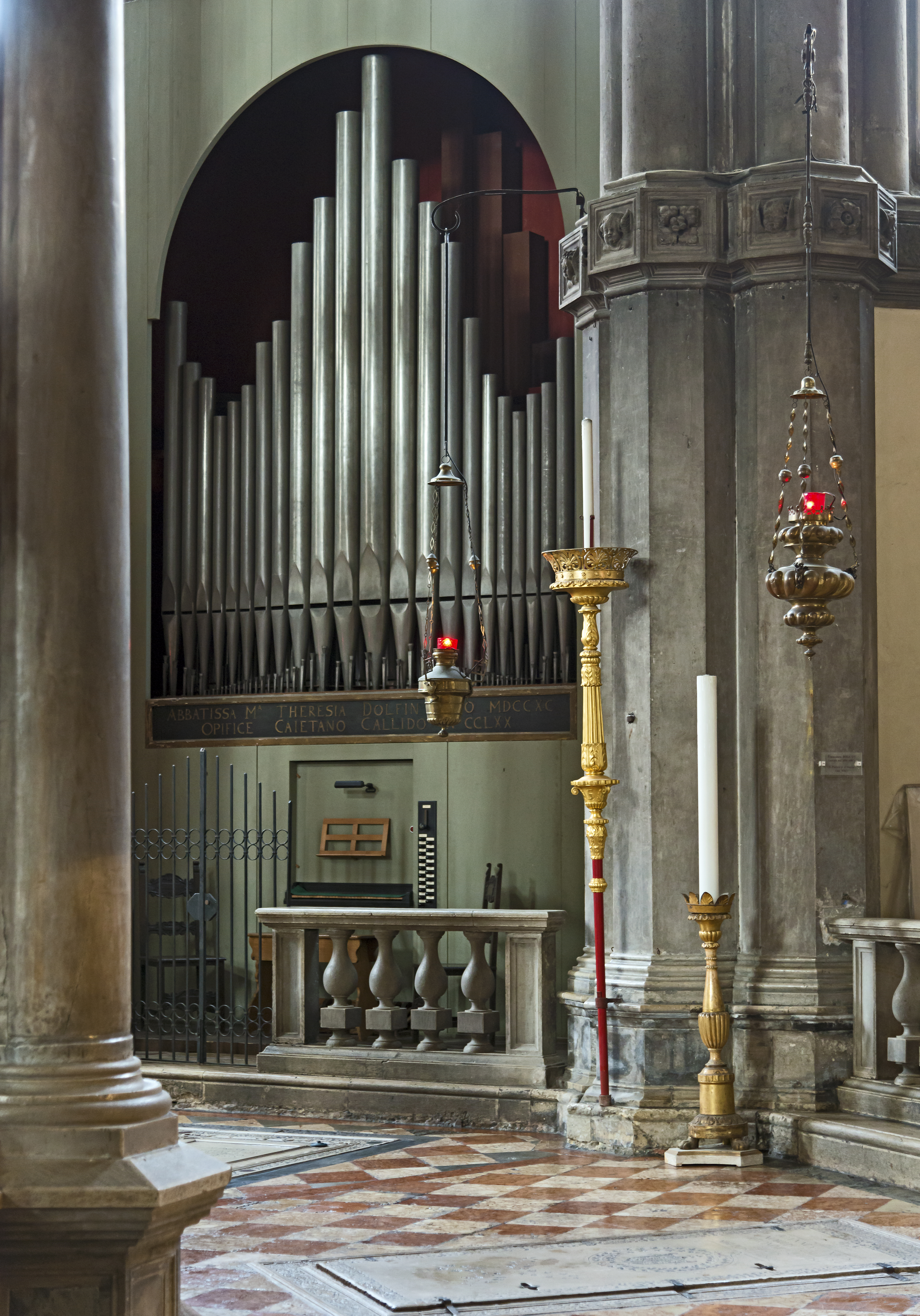 San Zaccaria in Venice - The organ of the eighteenth century by Gaetano Callido op. 270 (1790).